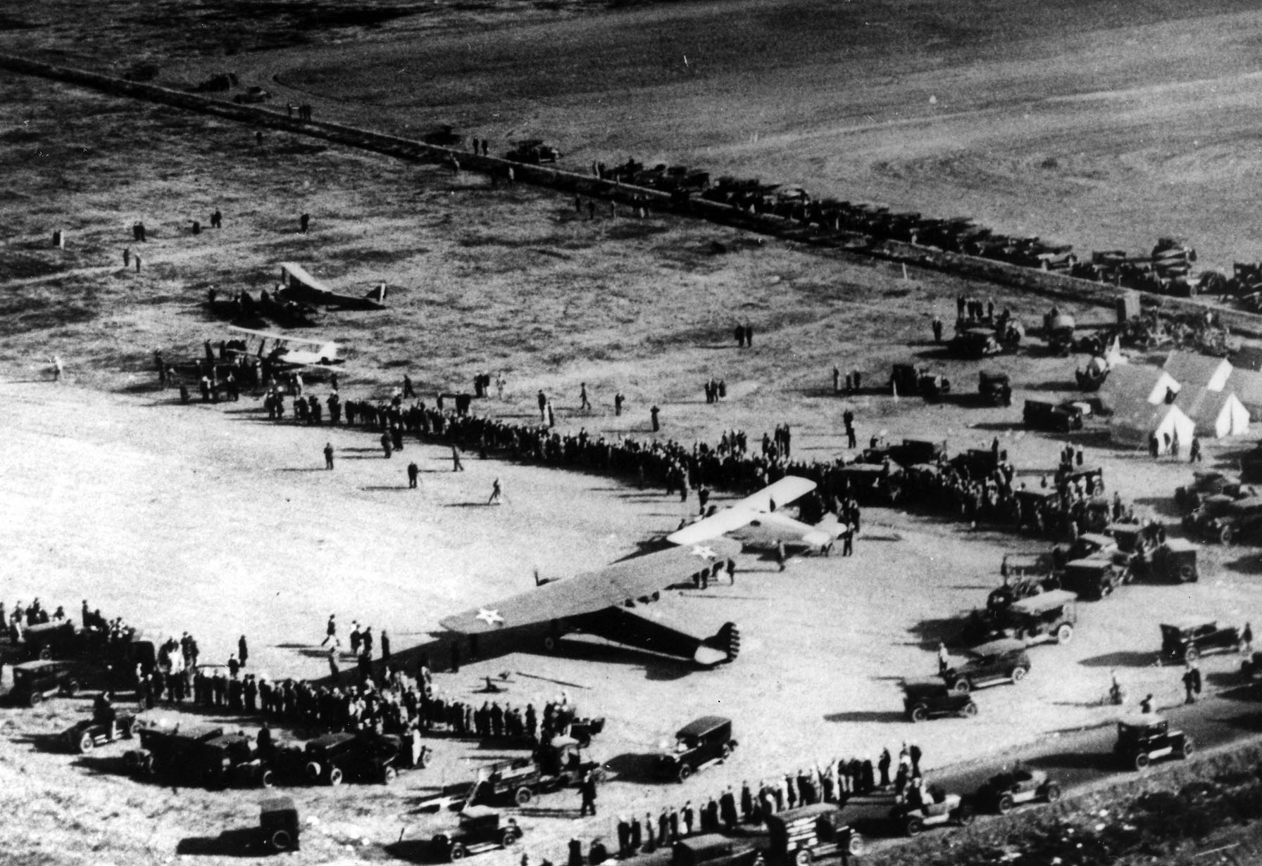 Atlantic-Fokker C-2 Bird of Paradise ready for takeoff in Oakland, Calif. (U.S. Air Force photo)